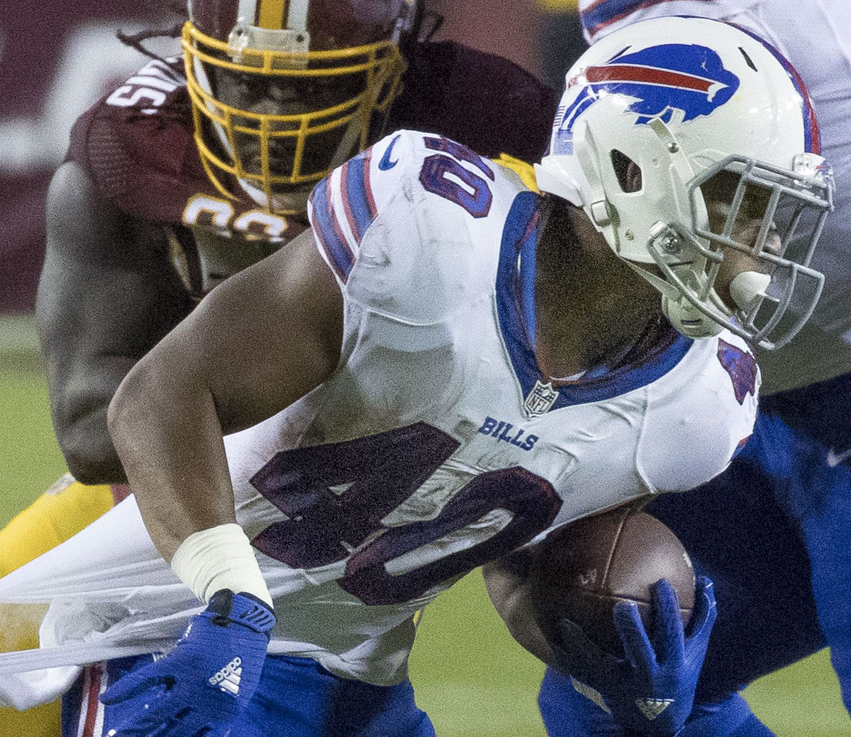 Buffalo Bills running back, Jonathan Williams, playing against the Washington Redskins on August 26, 2016.